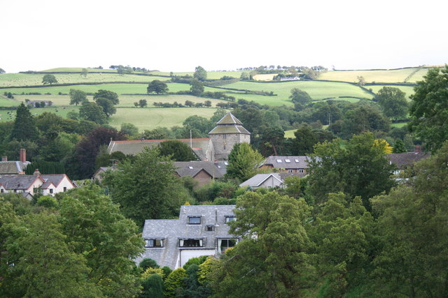 Church On High Clun Church sits on high above the village below.